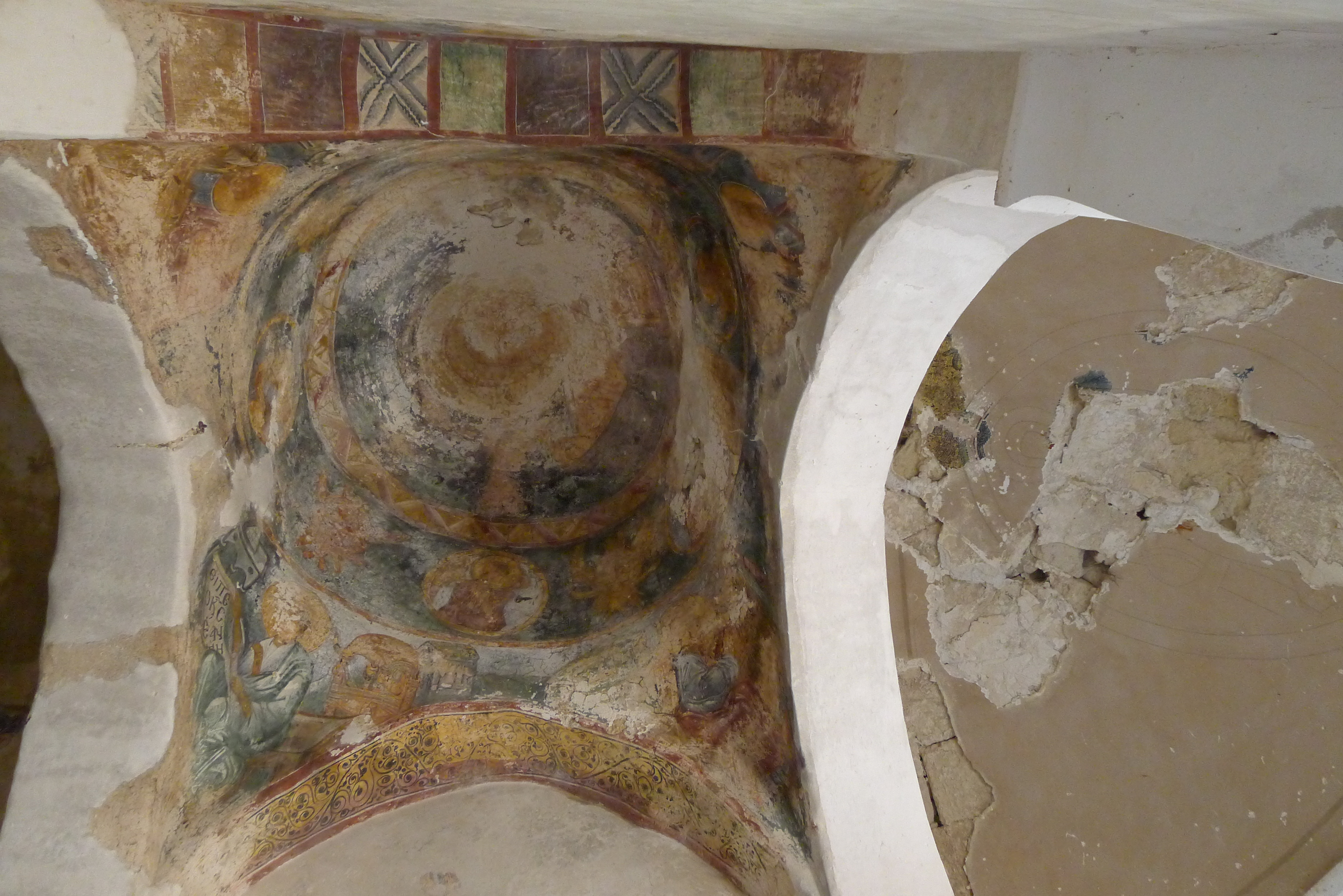 Cross volt and apse of Panagia Kanakaria, Cyprus (2012).